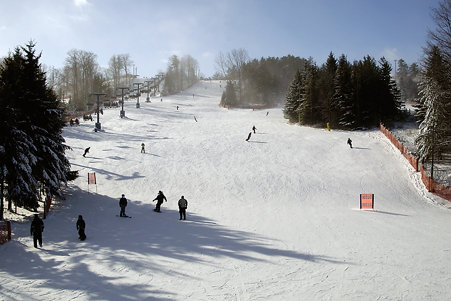 Photograph of the Chicopee Ski Club, Kitchener, Ontario, Canada Photographer: Shaun Coleman - Cambridge, Ontario, Canada Date Taken: 19 Dec 2004